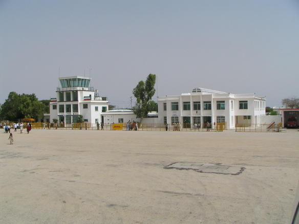 Airport of the capital of Somaliland, Hargeisa